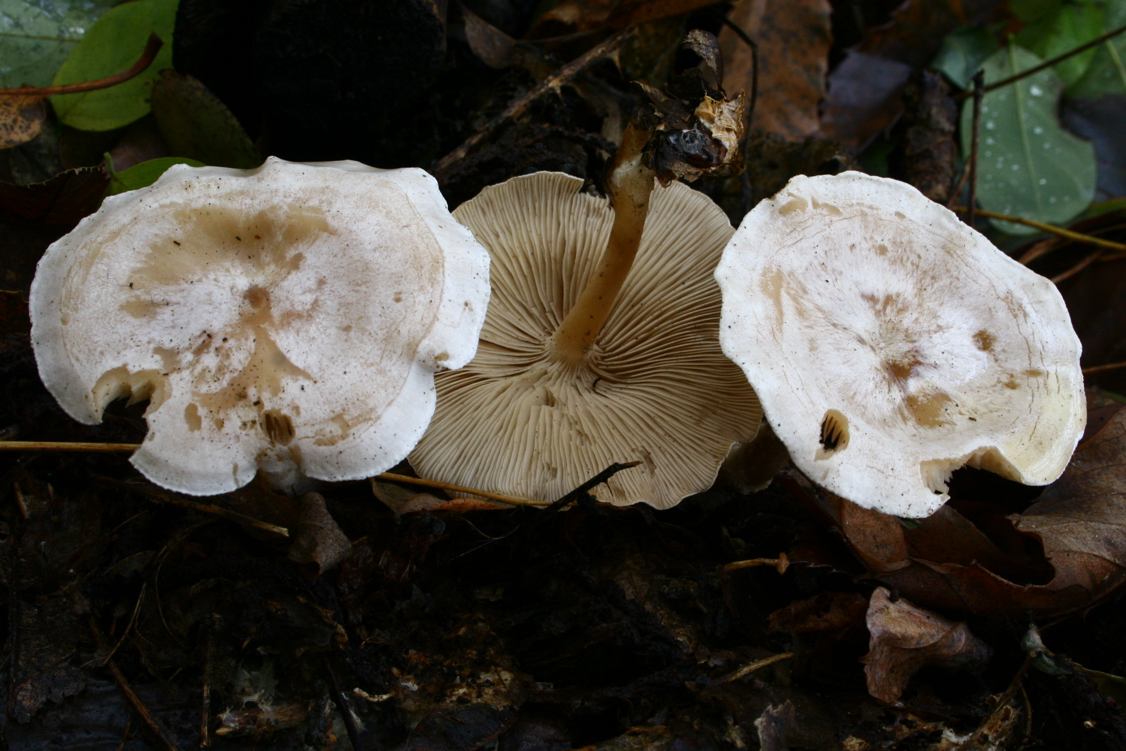 Clitocybe_phyllophila in la Fôret du Rocher de Saulx near Saulx-les-Chartreux, France.